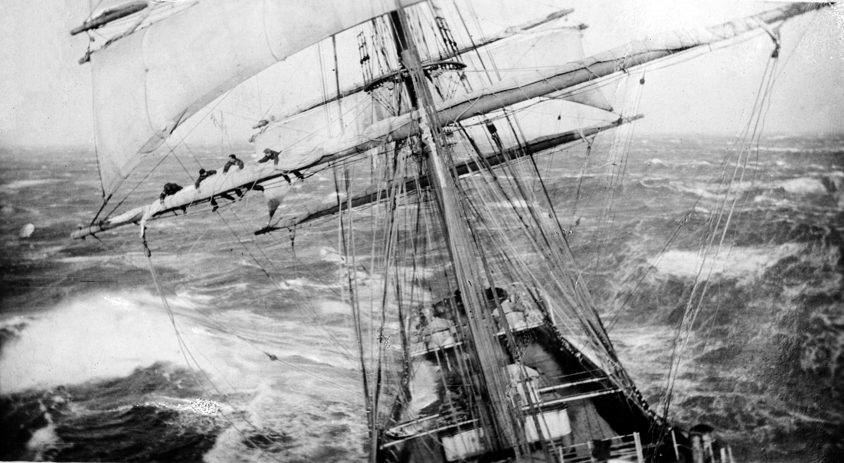 On board the ship `Garthsnaid' at sea. A view from high up in the rigging. Men can be seen in the rigging. This photo gives it in various archives with different particulars of the ship and photographers.